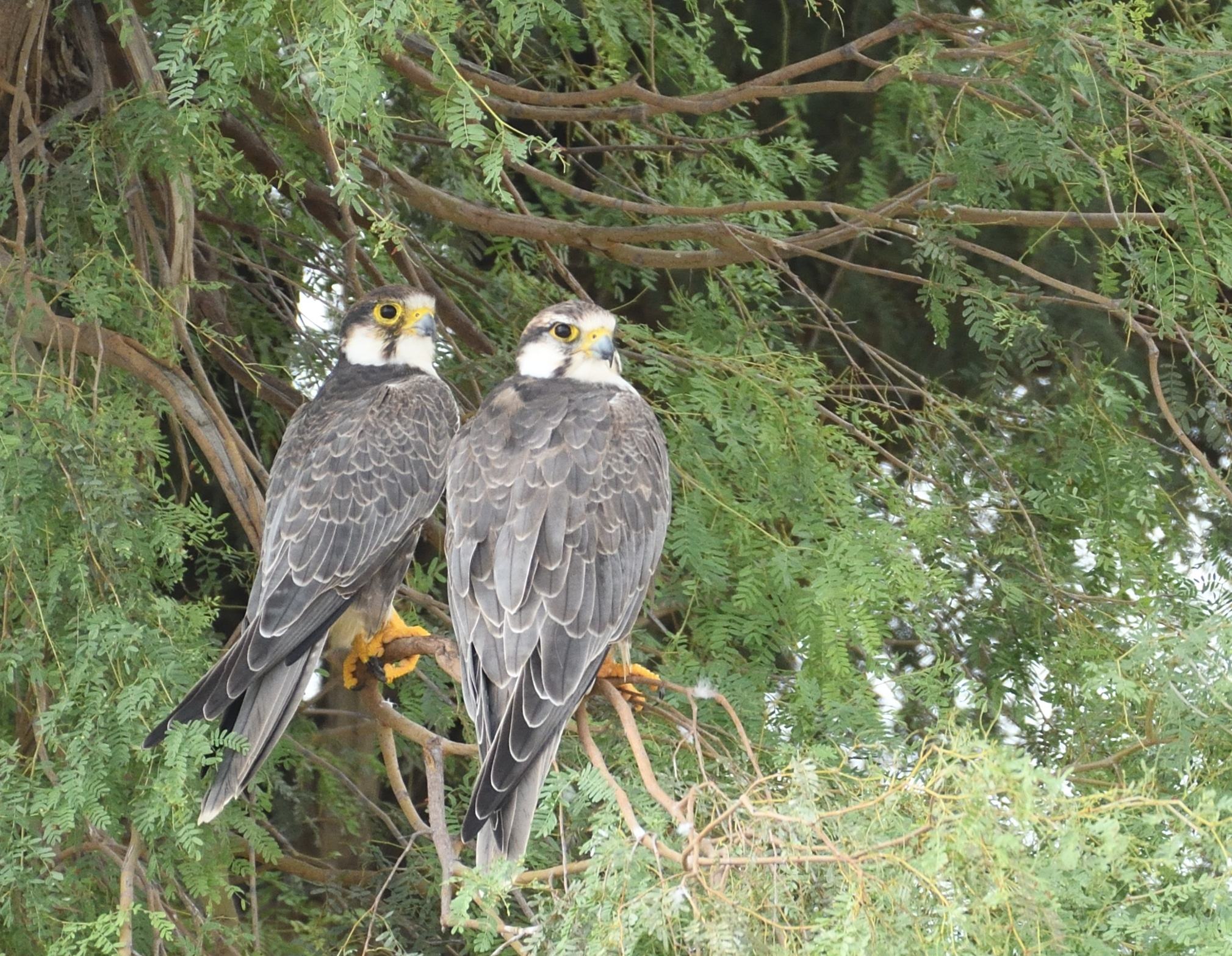 In this pair of Laggar Falcons, left one is an adult male with darker head and the other one is an adult female. Her head is pale compared to that male. Such variations are seen usually.